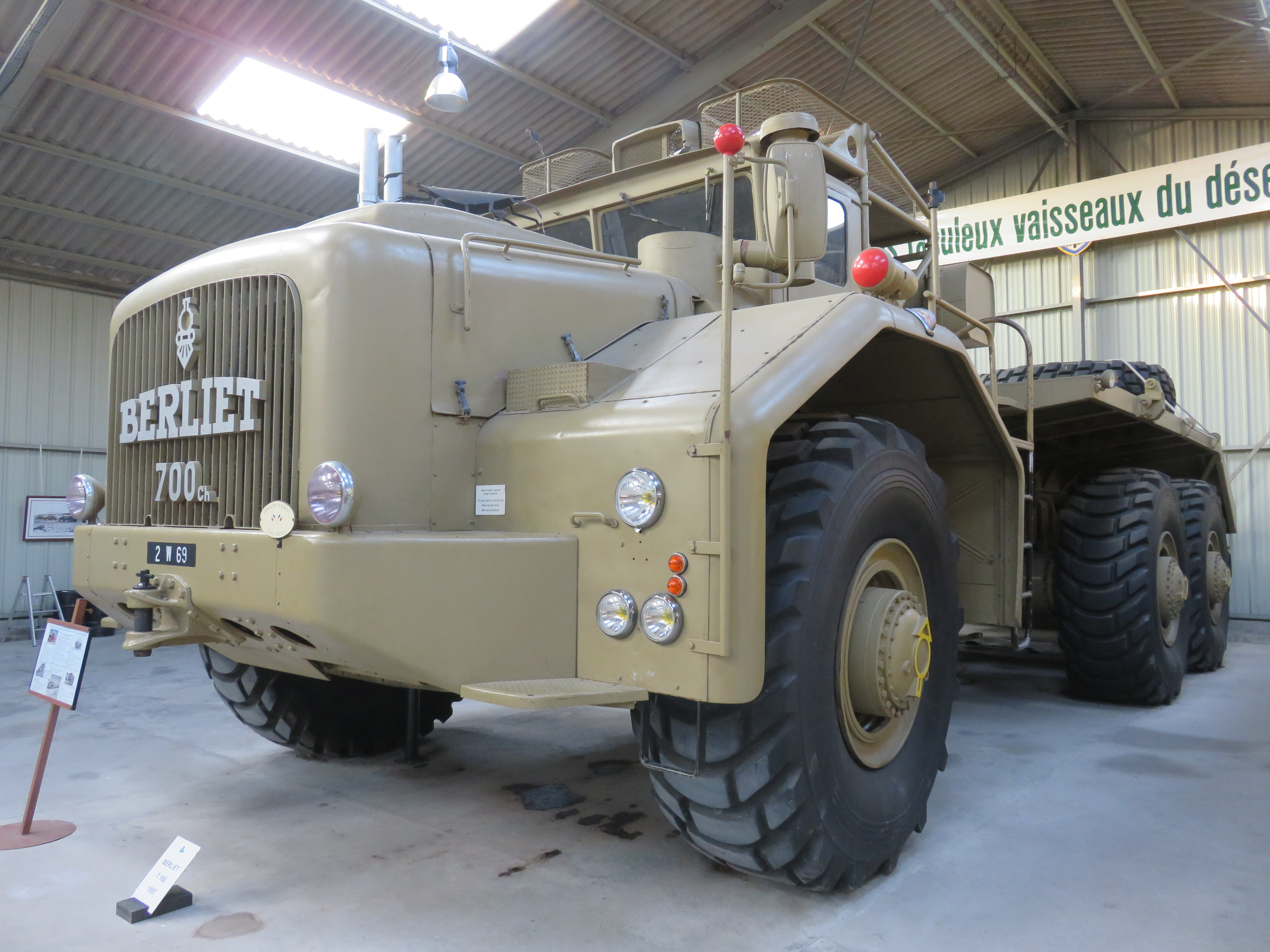 A Berliet T100 conserved at the Fondation Marius Berliet (Le Montellier, France) on October 20, 2018.